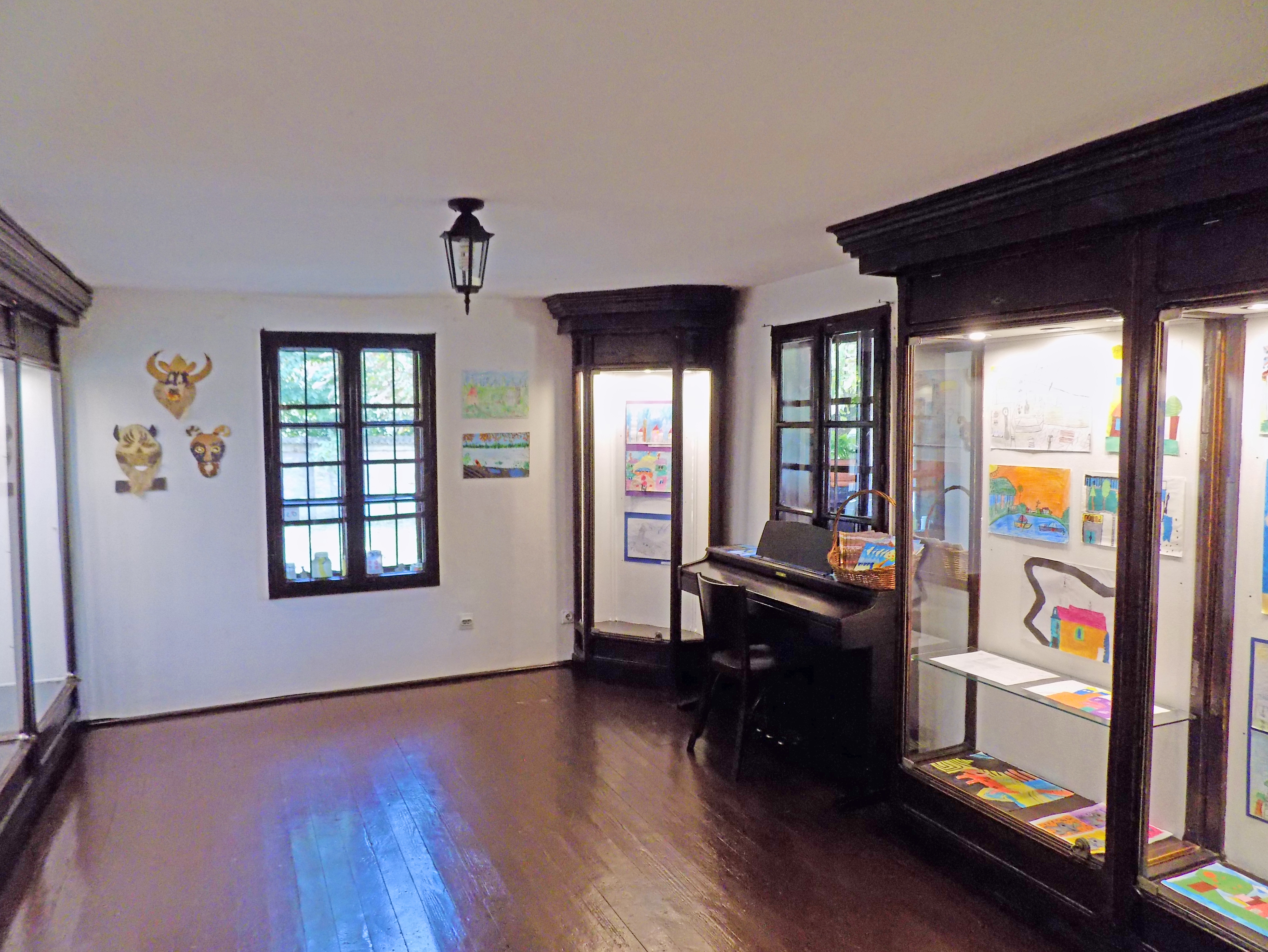 Rancic's house in Grocka, where the Center for Culture Grocka is located